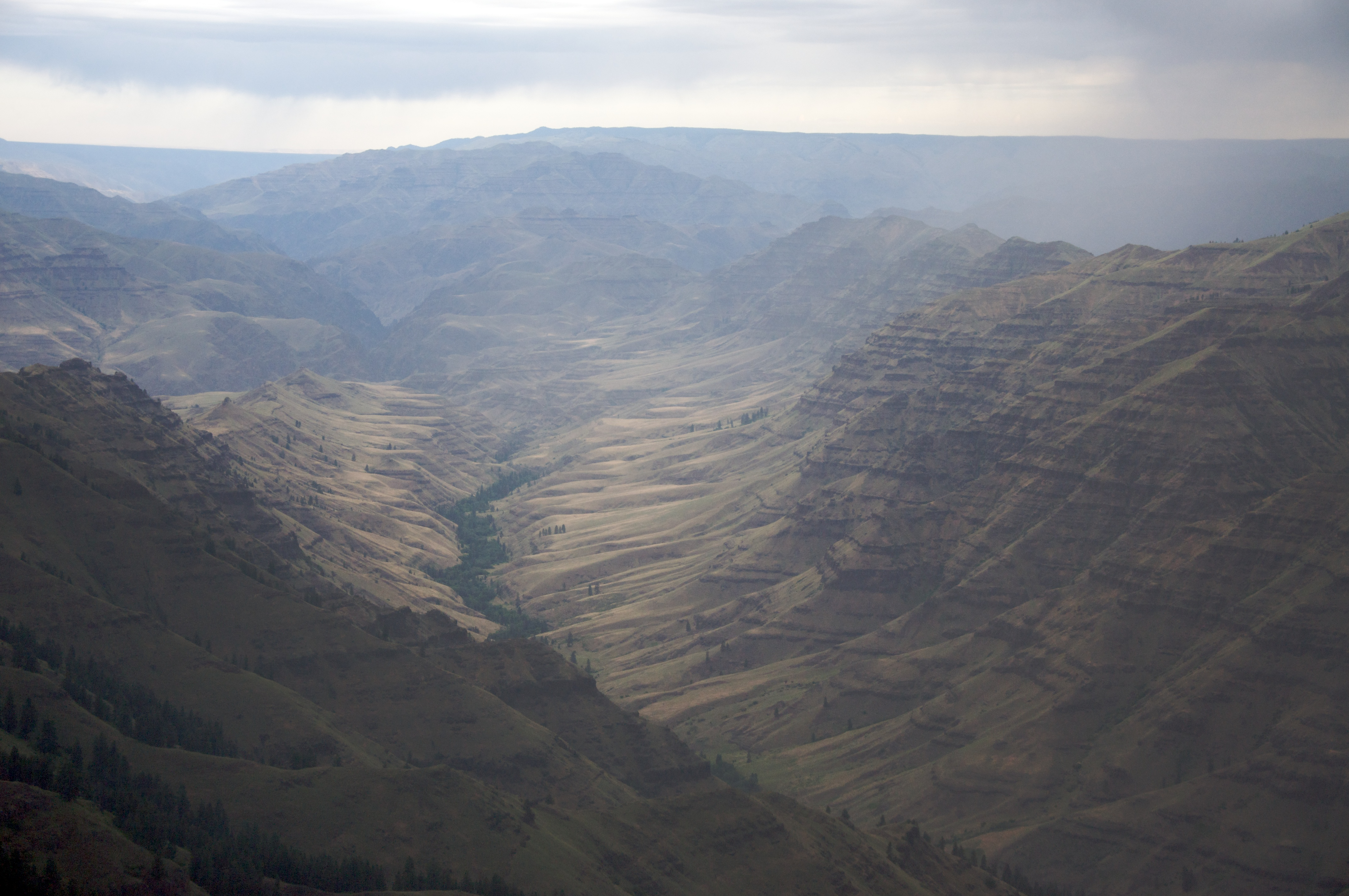 Aerial view of the Imnaha River in eastern Oregon. The river is often dry in the summer.